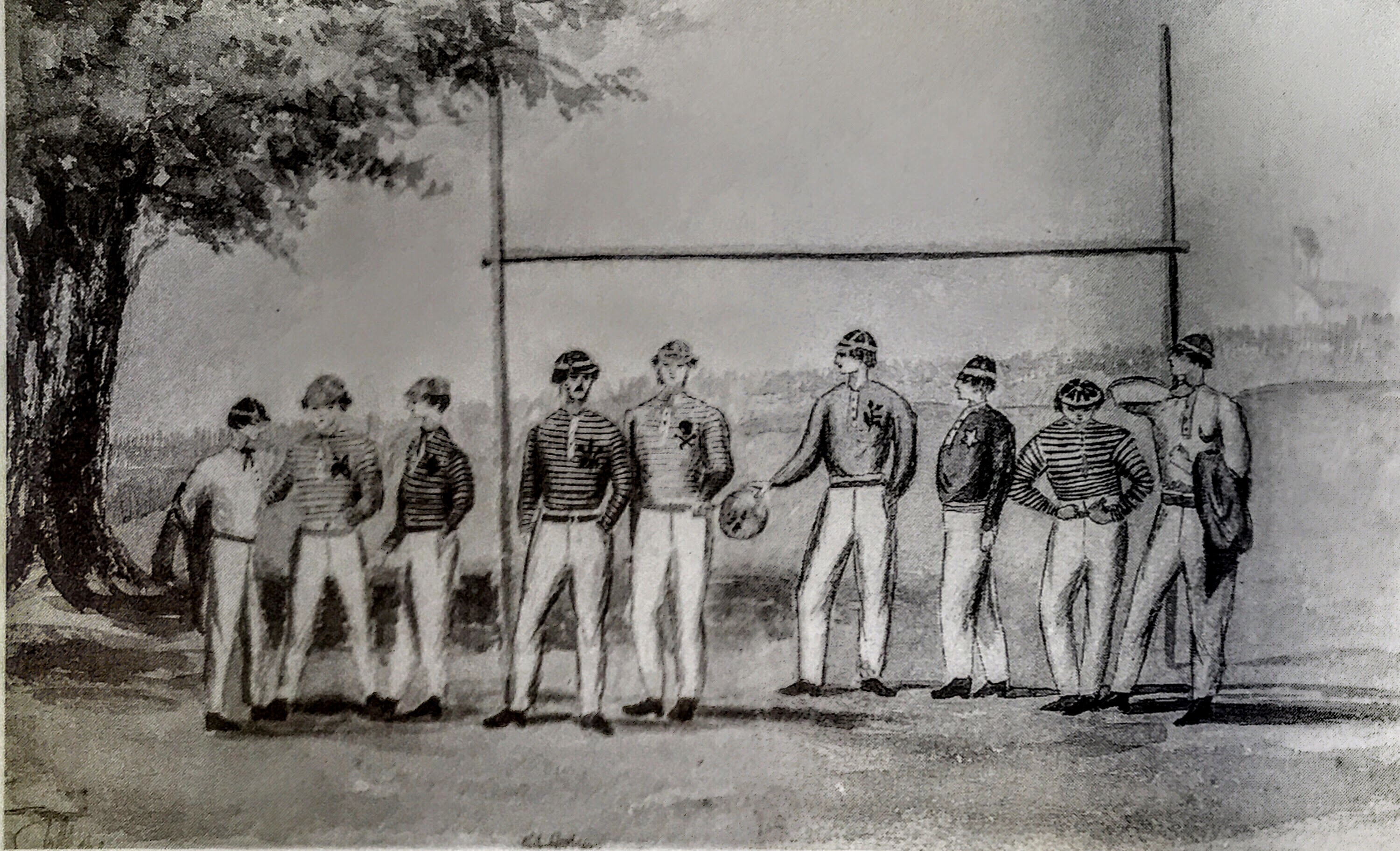 Illustration of the players and goals at Rugby School by Henry Fellows, 1858.